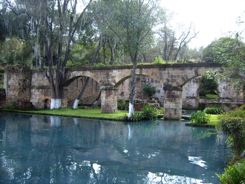 Most of the original structures are still in place since the XVIII century.